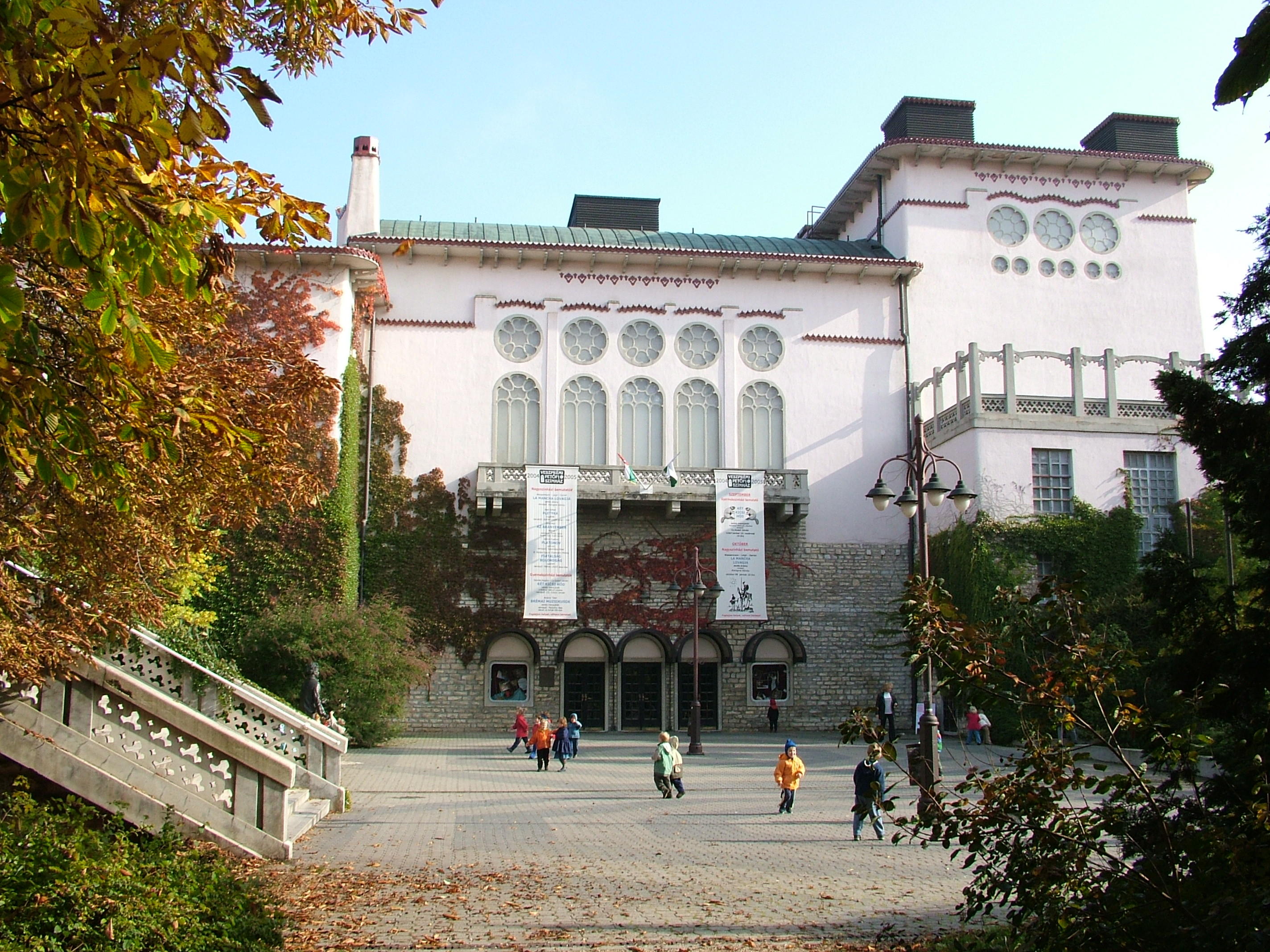 Petőfi Theatre, Óvári Ferenc St, Veszprem. Stephen Medgyaszay designed. Art Nouveau style. 1908.